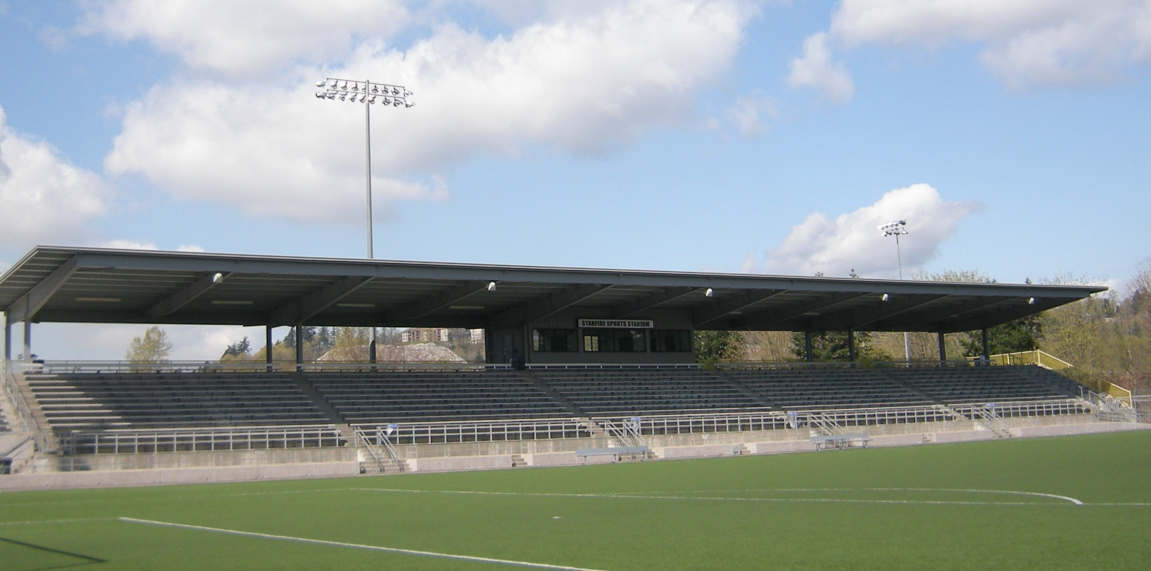 View of the field and grandstand at Starfire Sports Complex located at Fort Dent Park, Tukwila, Washington.